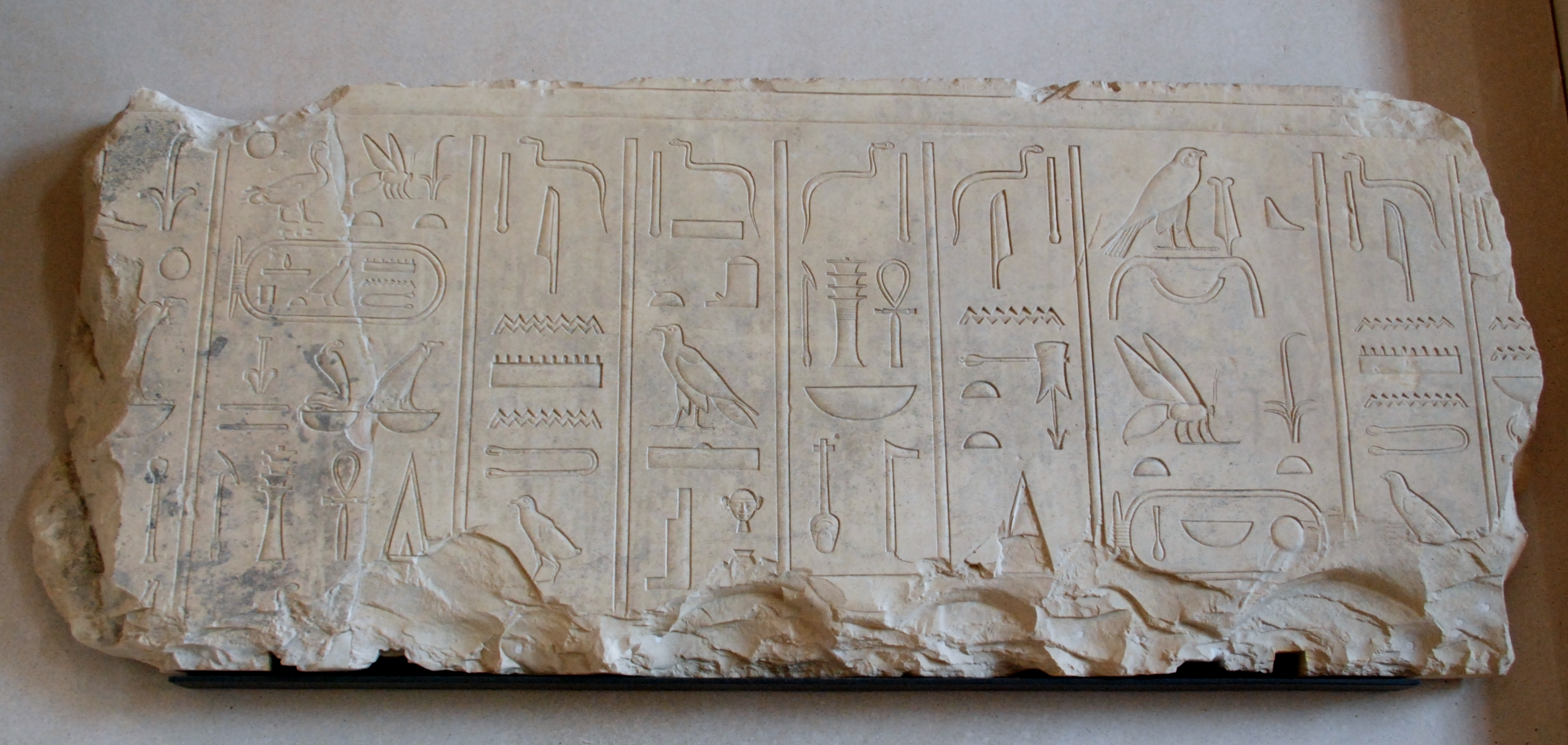 Inscription from the lintel of the Temple of Montu in Tod, reign of Nebhepetre Mentuhotep II (2033 - 1982 BC), 11th dynasty.